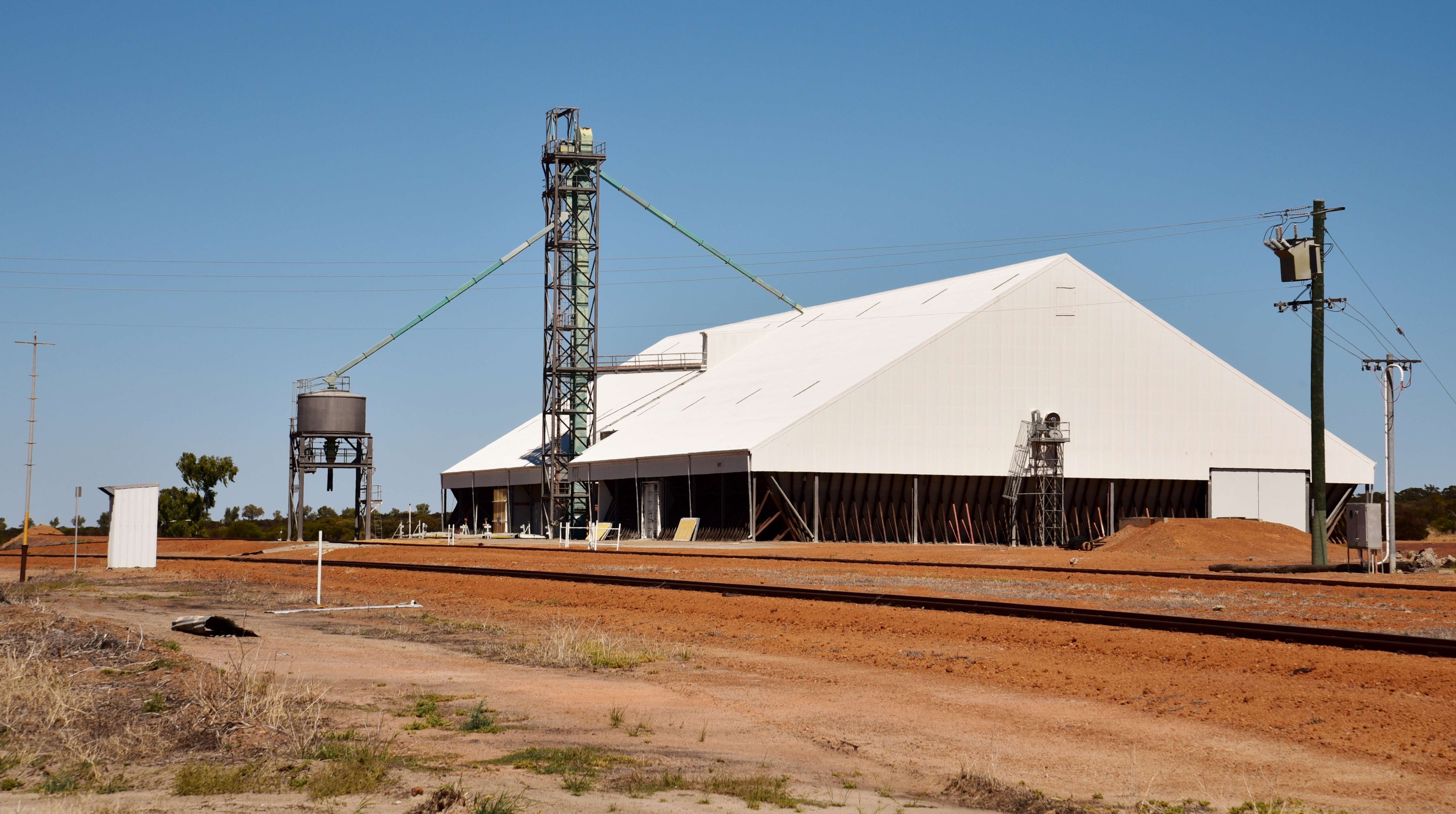 View of the CBH grain receival point, Kondut, Western Australia